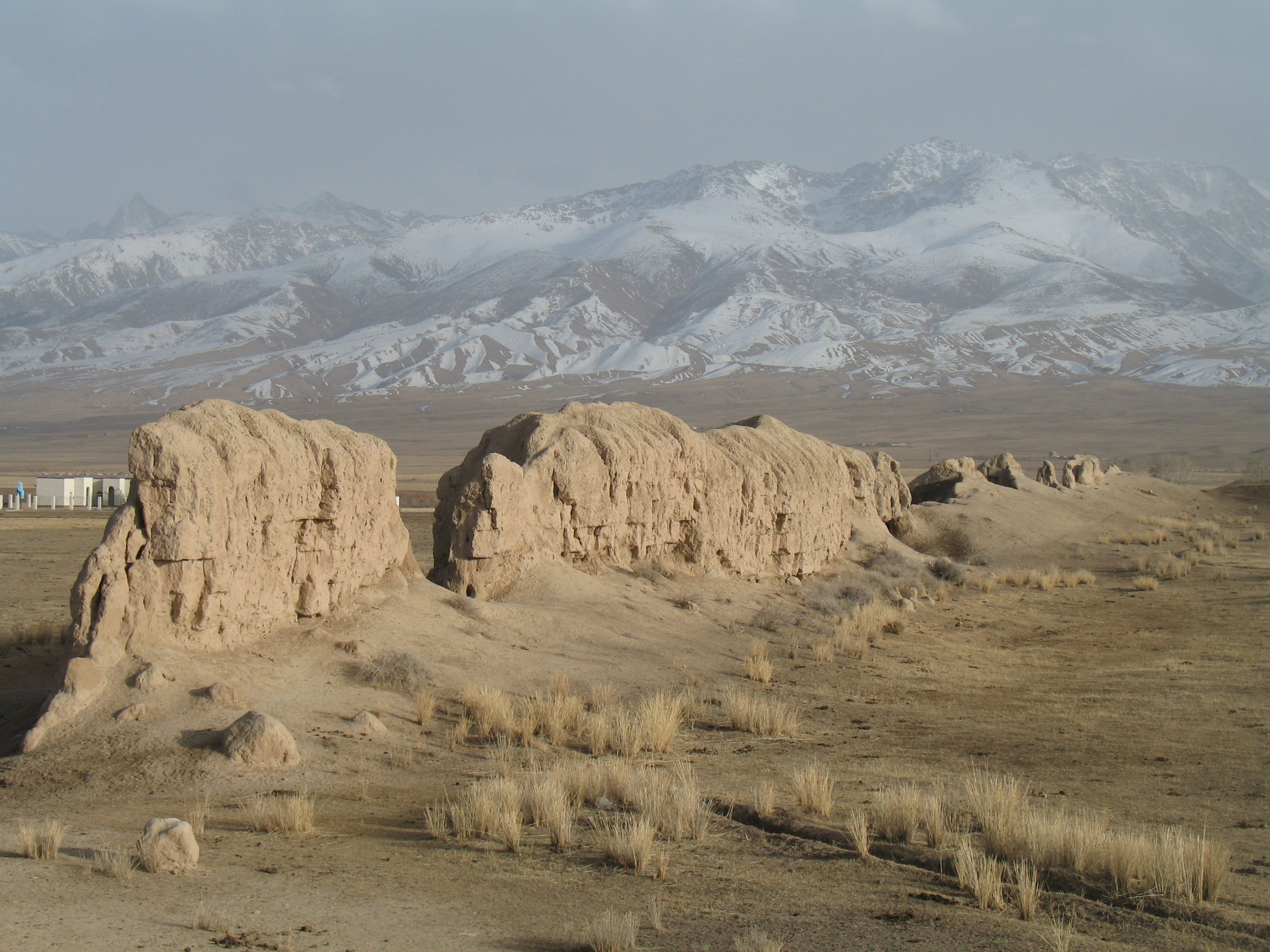 A view of Qoshoy Qorgon from the inner NE corner